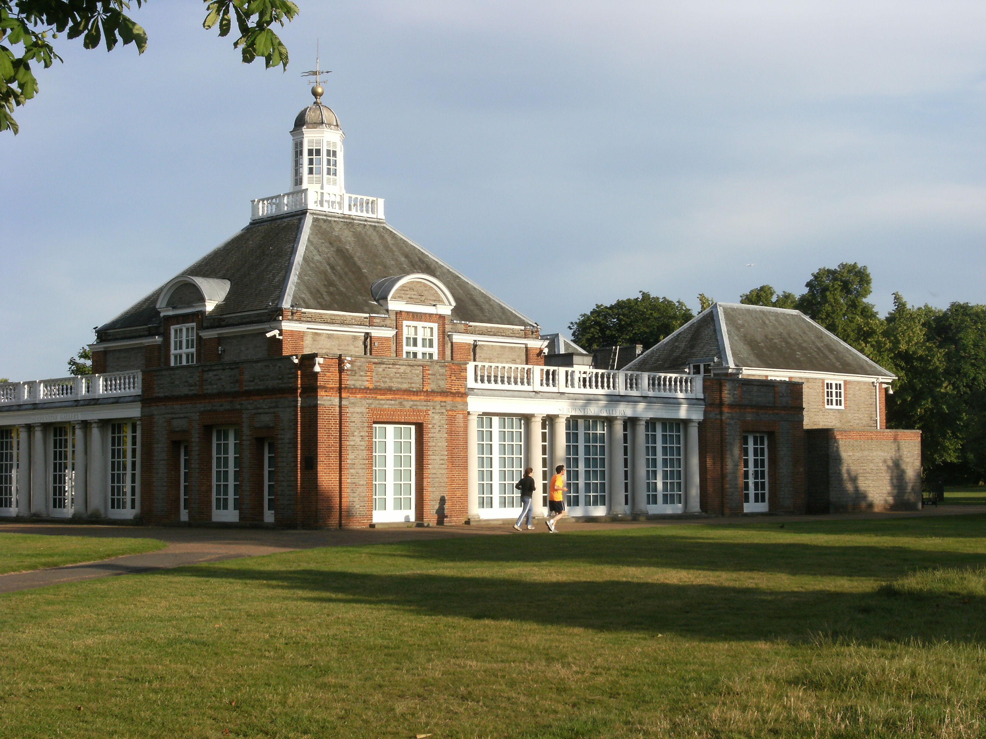 2011-06-06 in London.